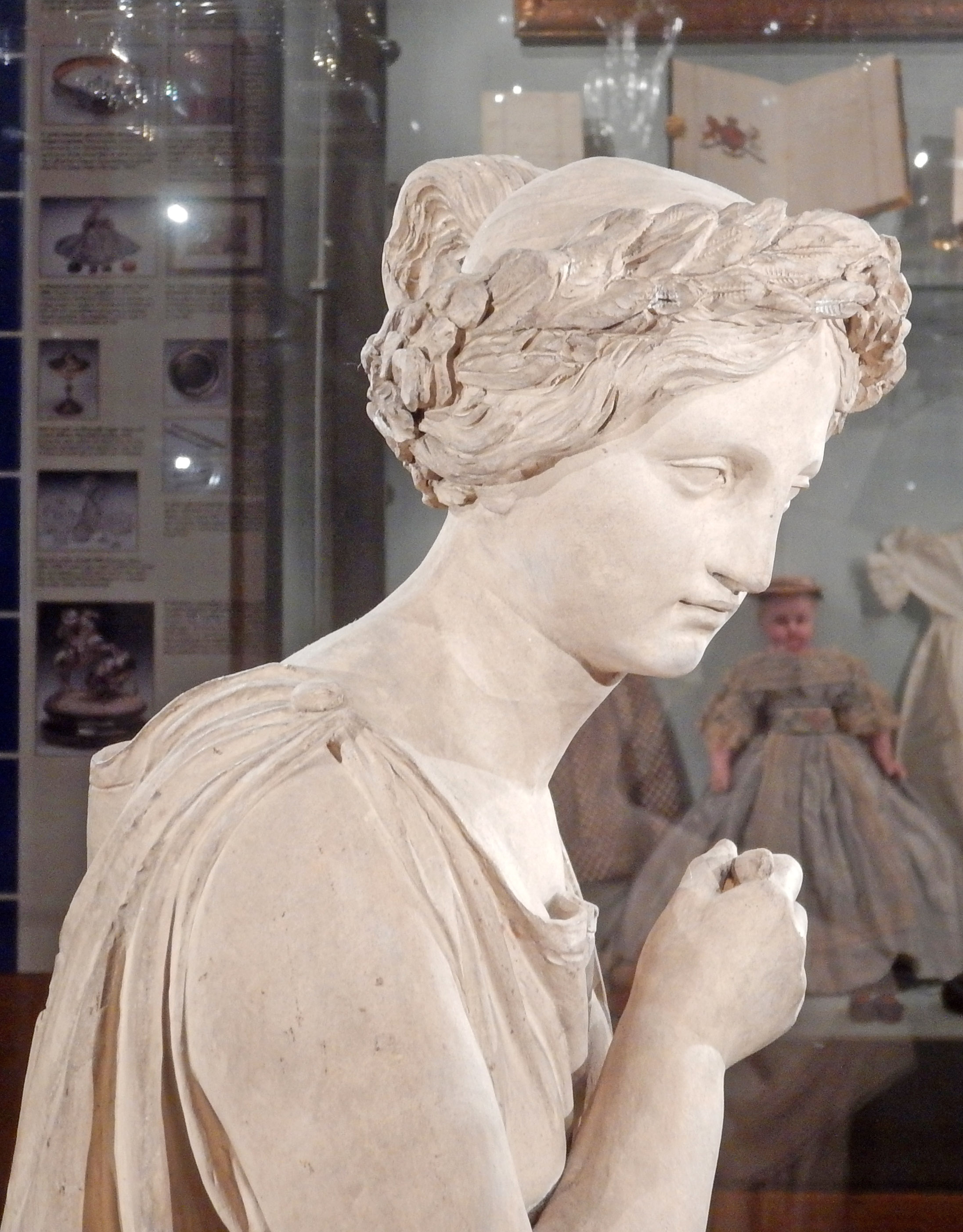 Blashfield terracotta figure, allegorical of literature. (The Stampford Terra Cotta Company Ltd). In 1858 John Marriot Blashfield (d.1882) moved his terracotta kilns from London to Stampfrod because of the superior nature ot the local clay.